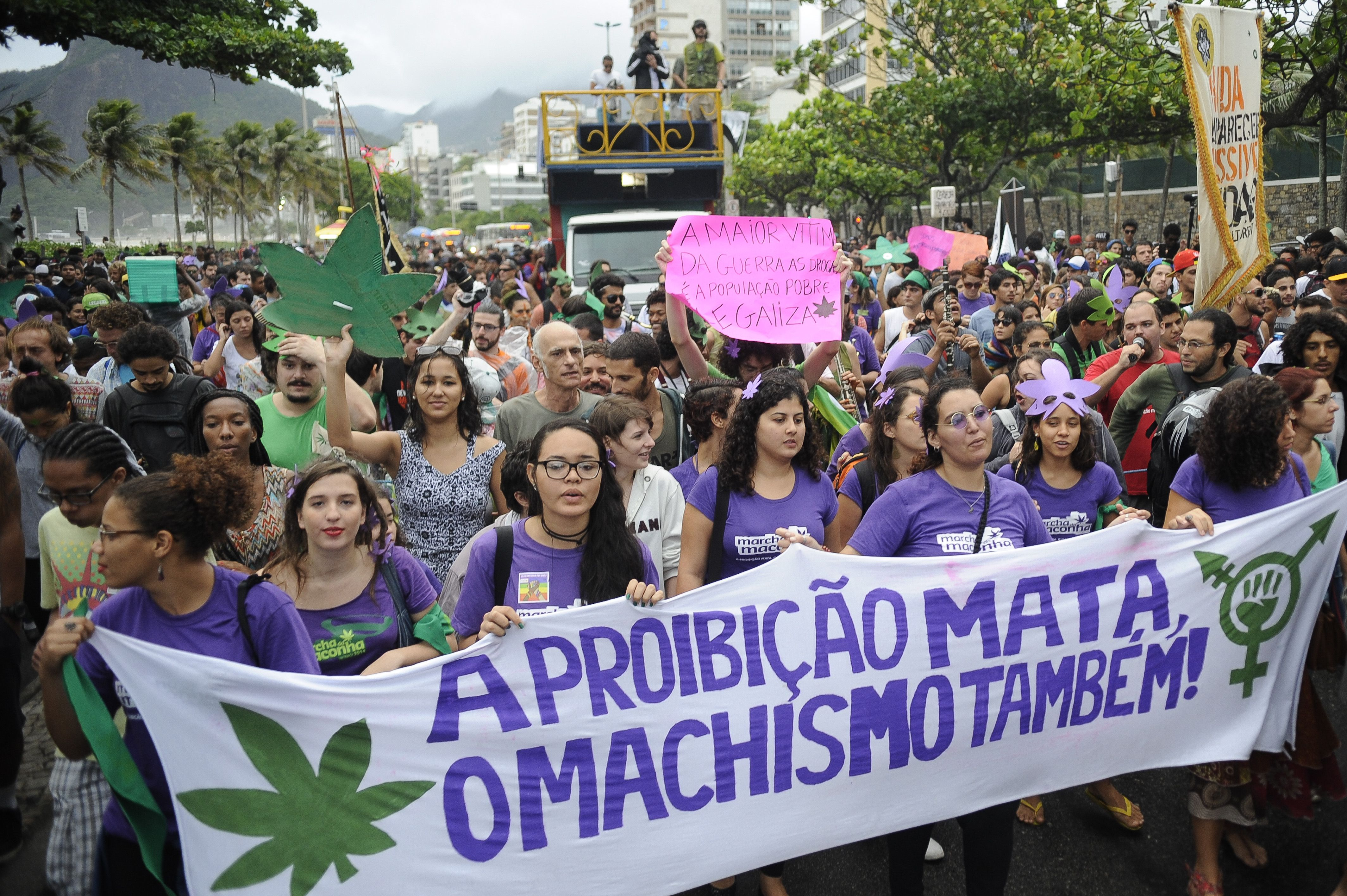 Marijuana march. Photo by Tomaz Silva/Agência Brasil CCBY3.0